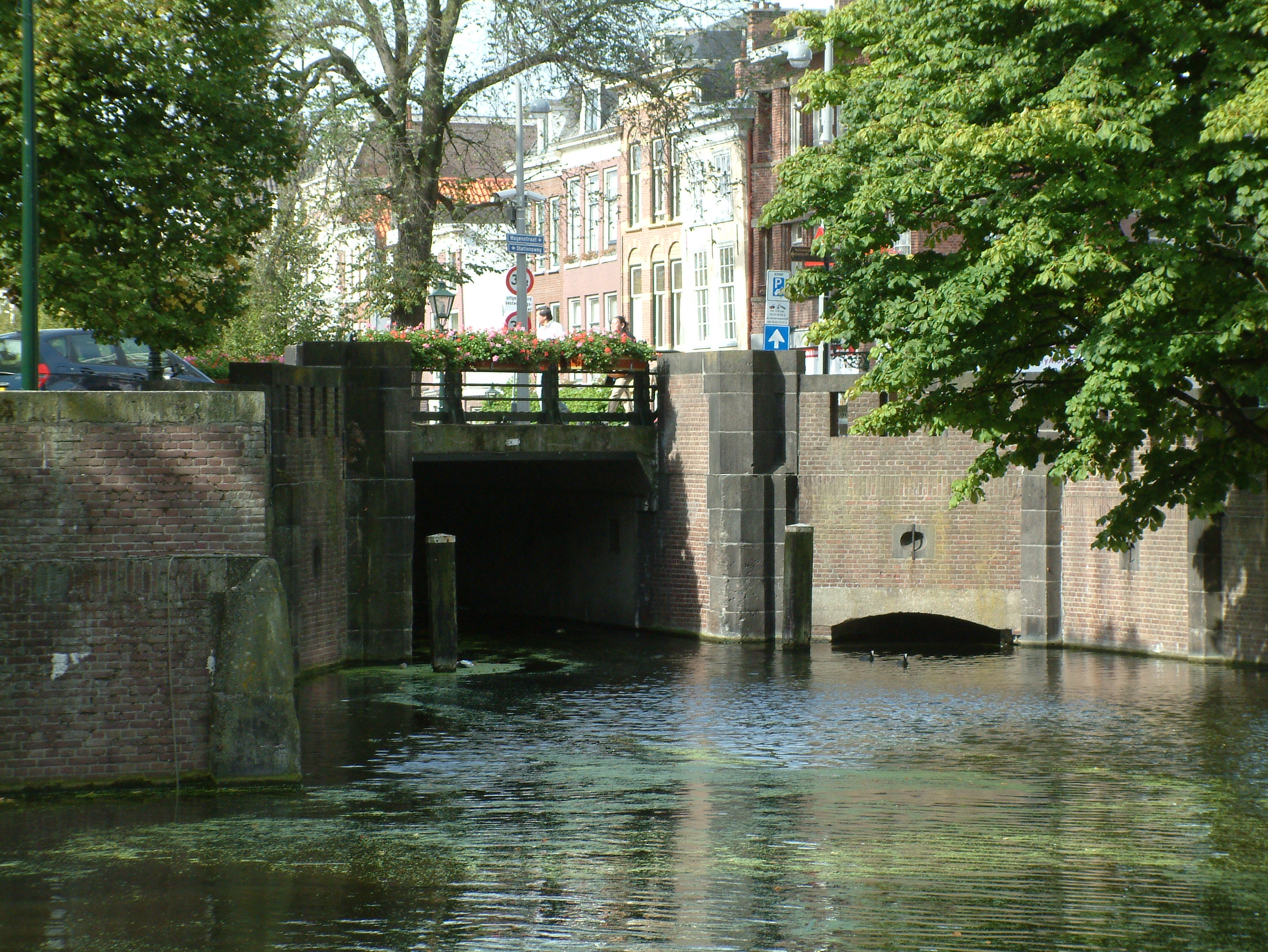 Wagenbrug in The Hague